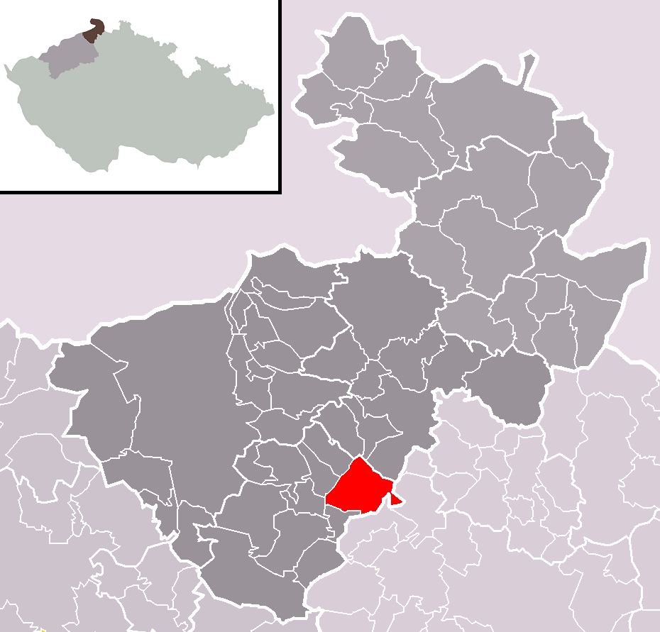 Location of Velká Bukovina municipality within Děčín District and administrative area of Děčín as a Municipality with Extended Competence.